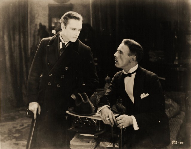 John Barrymore (left) & Roland Young in Sherlock Holmes - cropped screenshot (original image modified : see source)